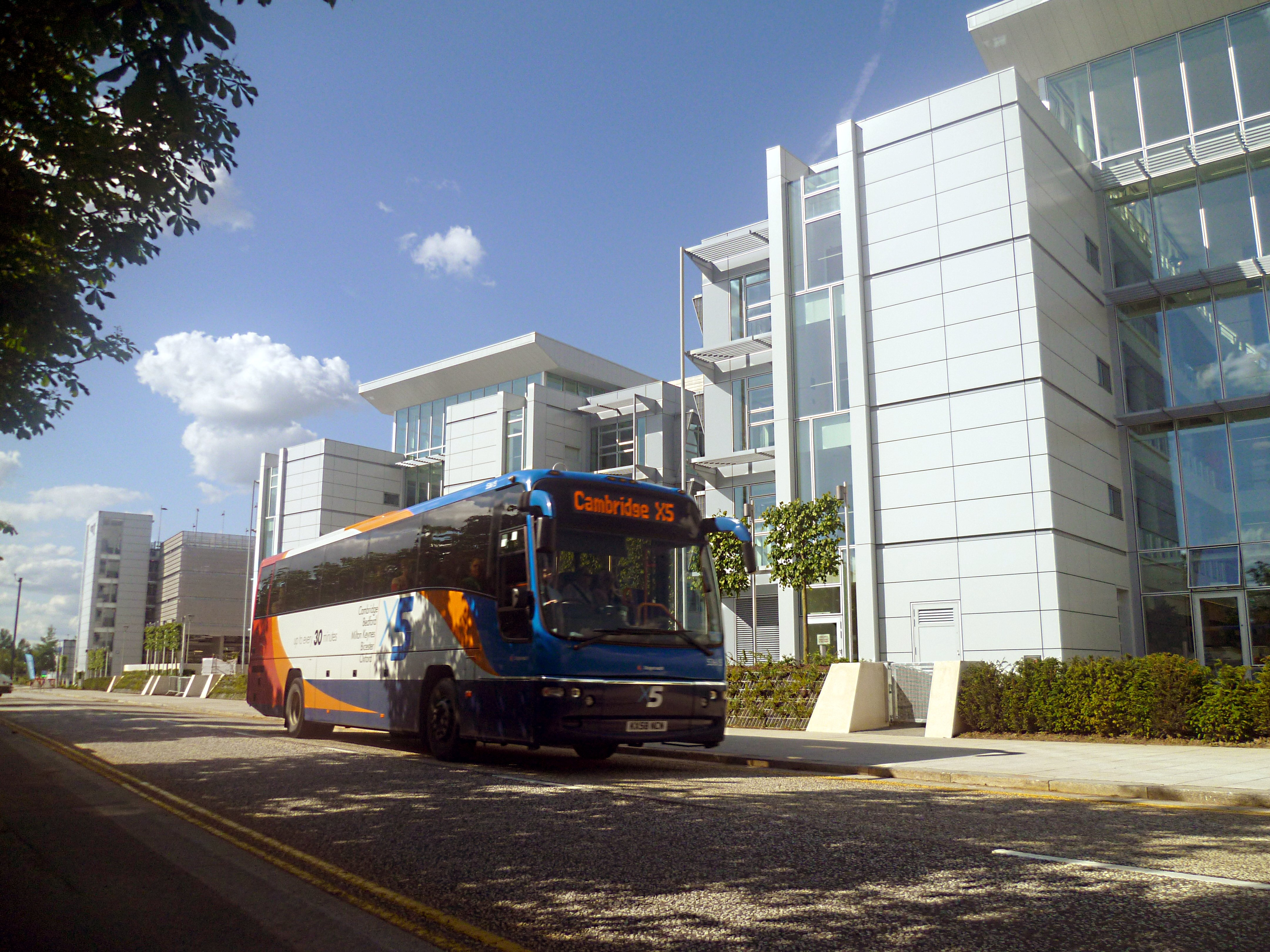 A Stagecoach X5 service passing the new Network Rail Headquarters in Central Milton Keynes.